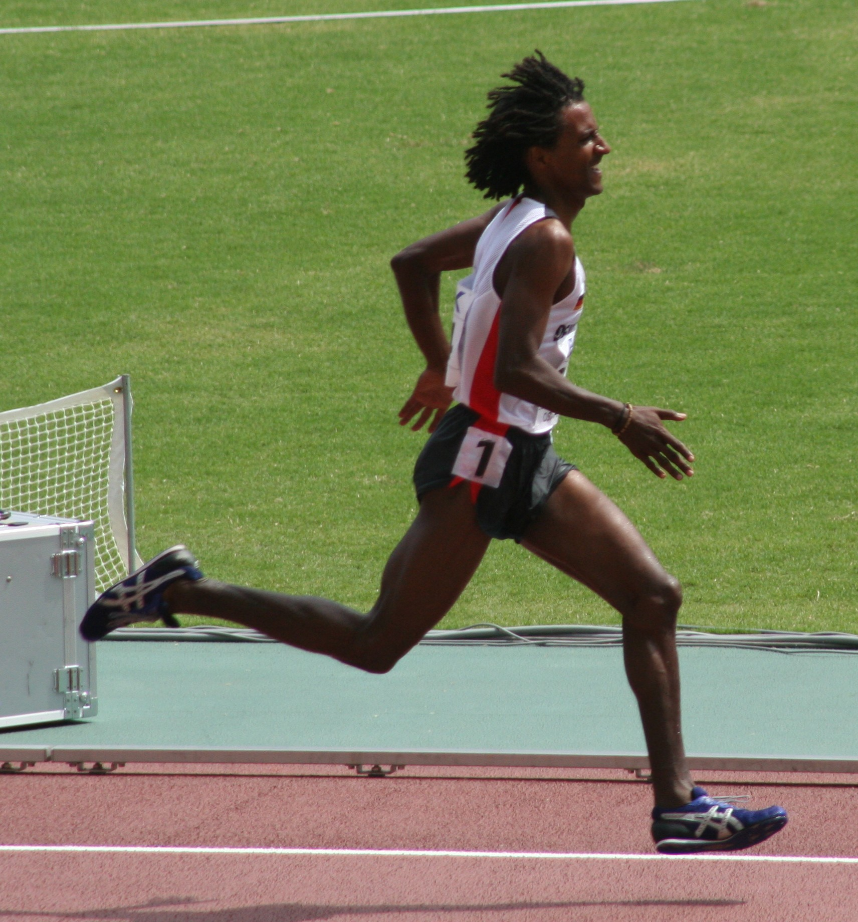 World Athletics Championships 2007 in Osaka - German 3000 metres steeplechase runner Filmon Ghirmai during a first round race